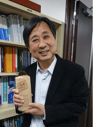 Hiroshi Nishihara celebrates his 60th birthday.